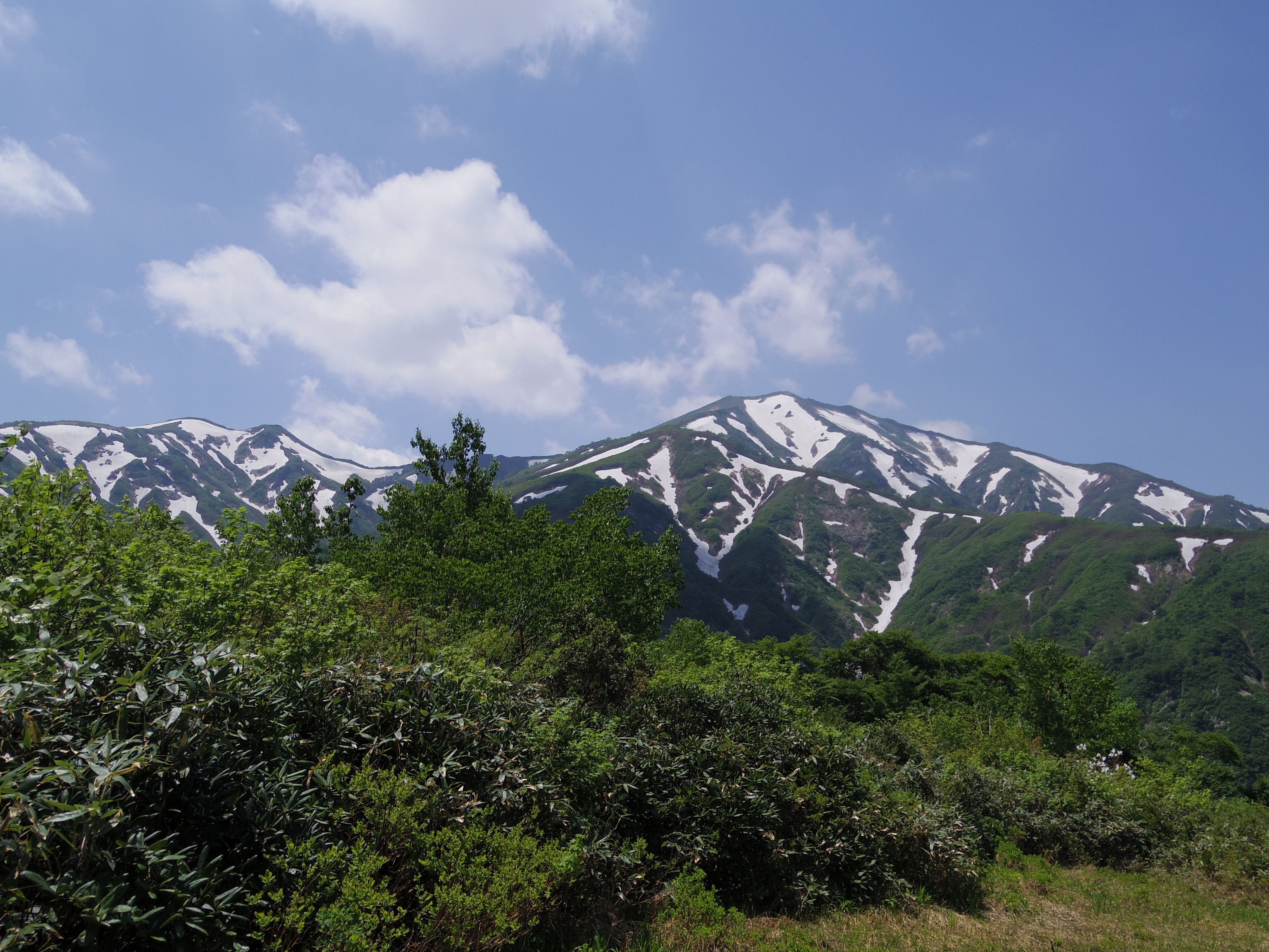 Mount Iide (right) seen from the ESE.